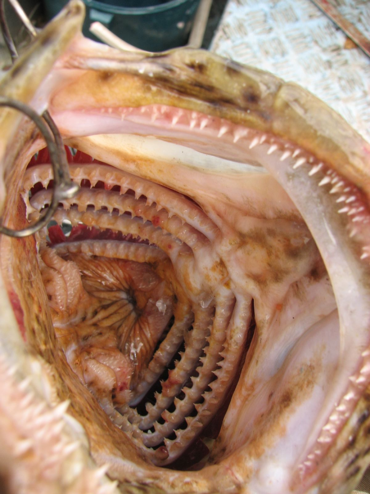 Pharynx and Gill raker of Epinephelus coioides, estuary cod. Original Text from flickr: he had Two hooks in 'em. Hard to get out 'cuzz you can't stick your finger in his mouth. I learned that last fishing trip the hard way .(after the bloody thing'ad been in the boat an hour) Once bitten twice shy.